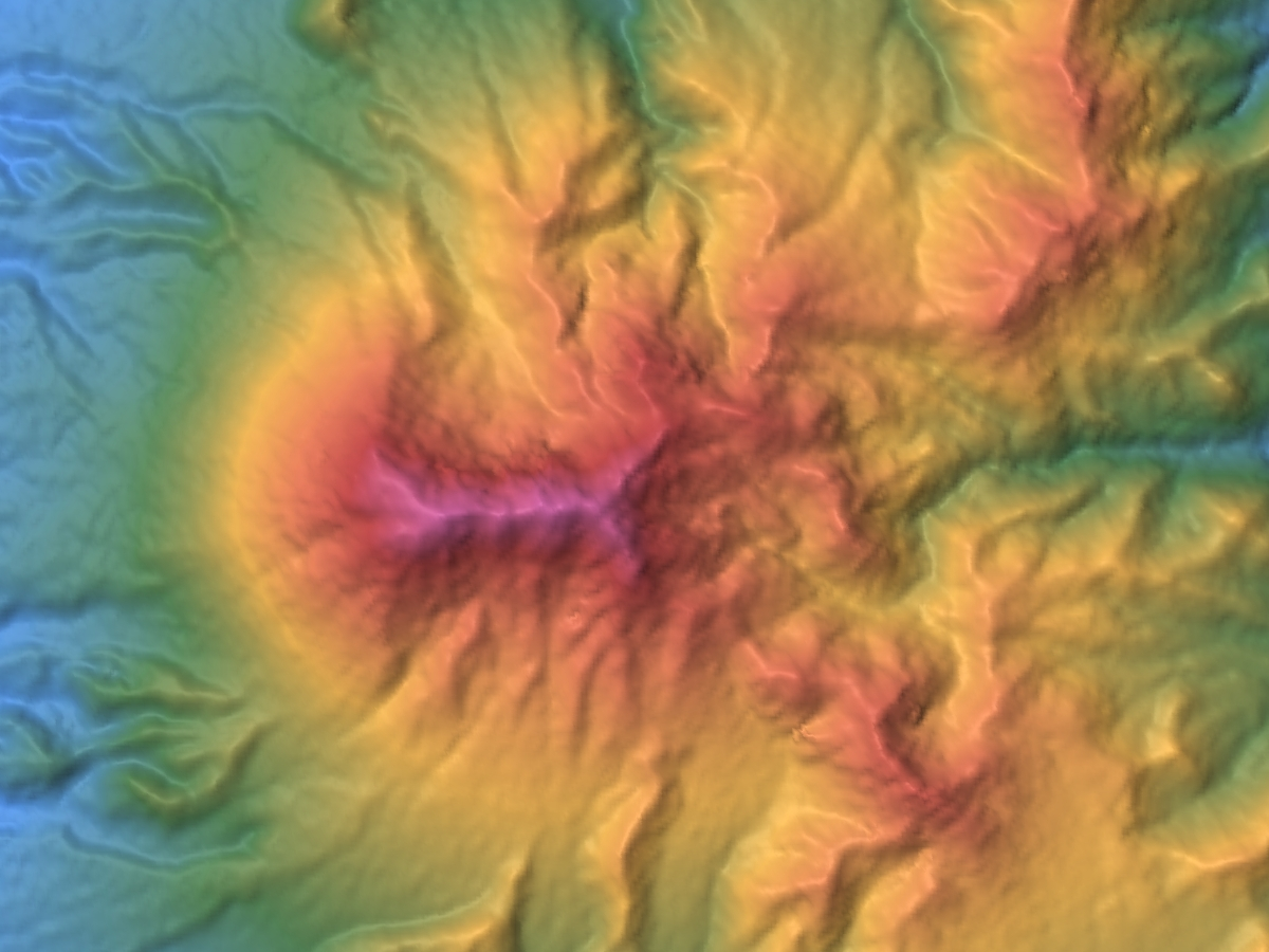 Daisen Volcano in Chūgoku Region, Japan.